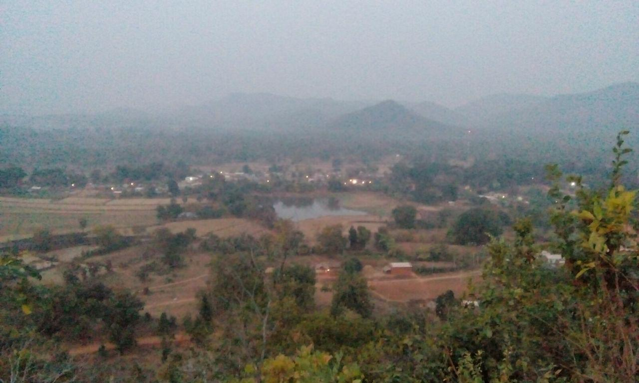 clicked from hill